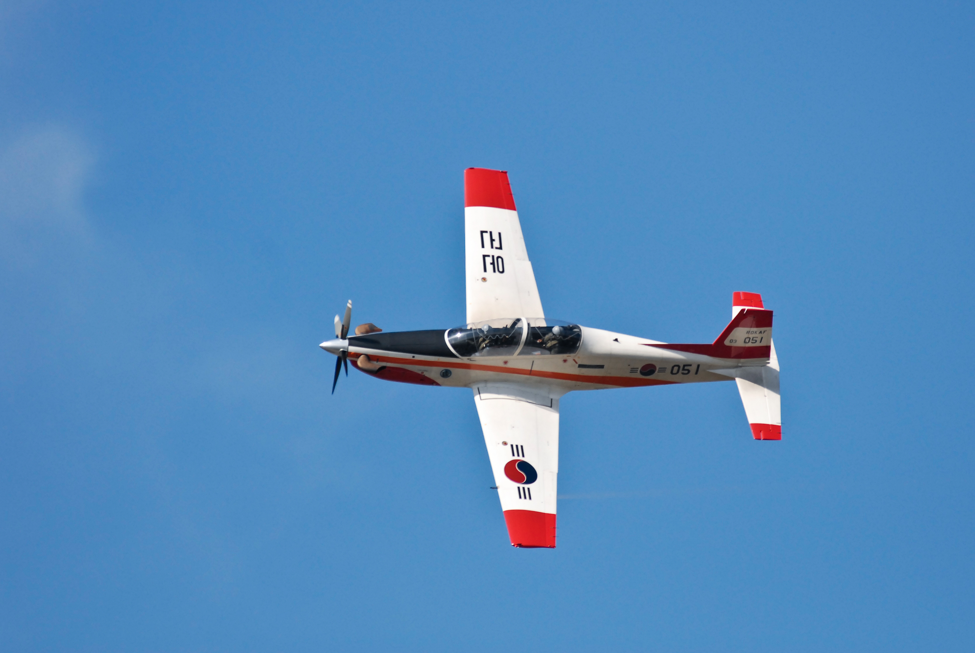 REPUBLIC OF KOREA, SEONGNAM : Demonstration Flight of ROKAF New Light Trainer KT-1 'Woongbi', VISIONSTYLER PHOTO / KIM DOO-HO